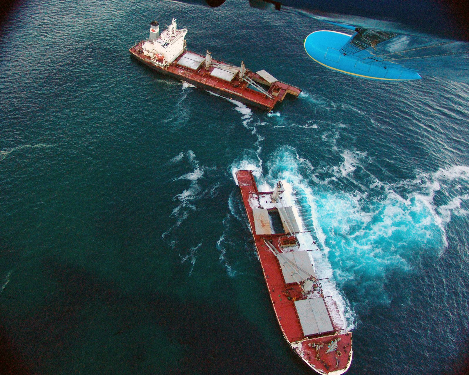 JUNEAU, Alaska --An over-flight photo taken Dec. 19 show the bow and stern sections of the 738-foot freighter Selendang Ayu near Skan Bay. Unified Command photo